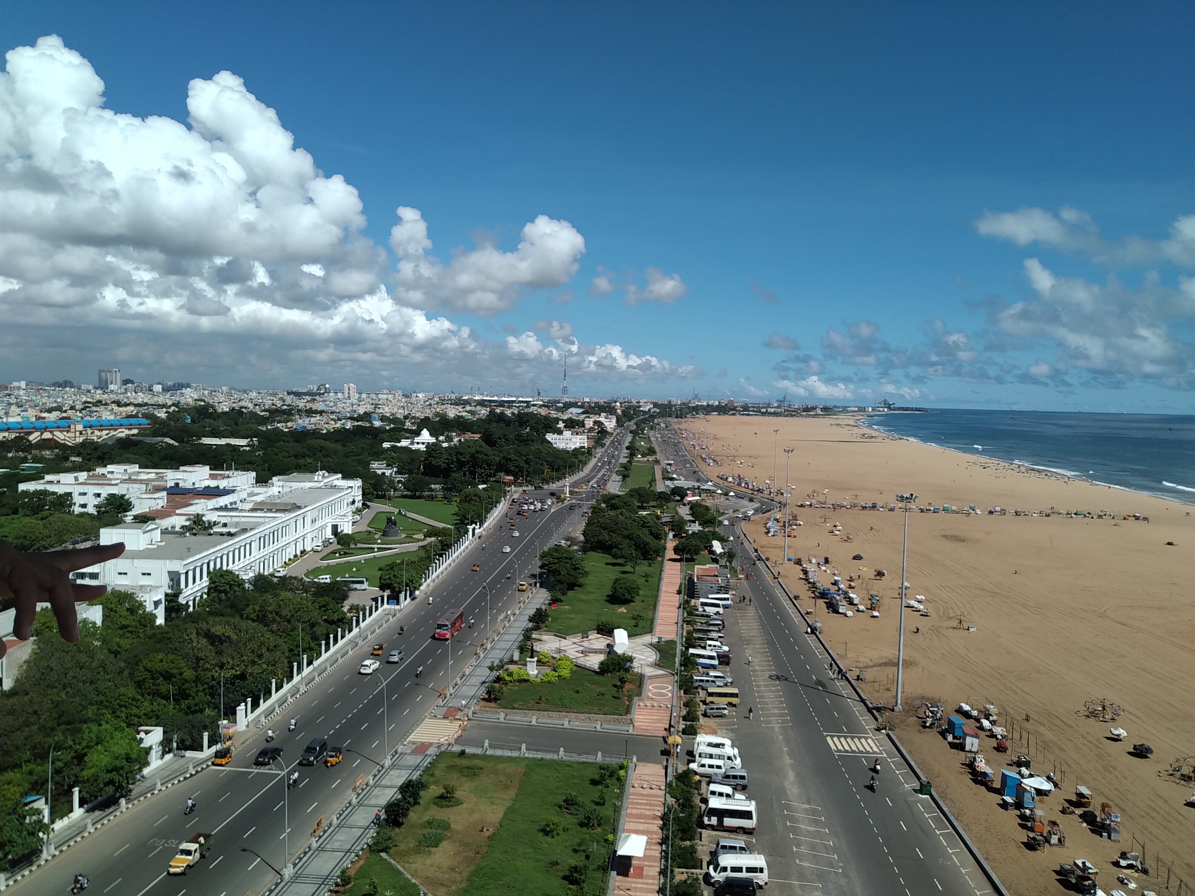 Bird's-eye view of Chennai city from Chennai Lighthouse near Marina Beach